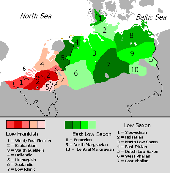 Low Franconian and Low Saxon languages in Europe after 1945